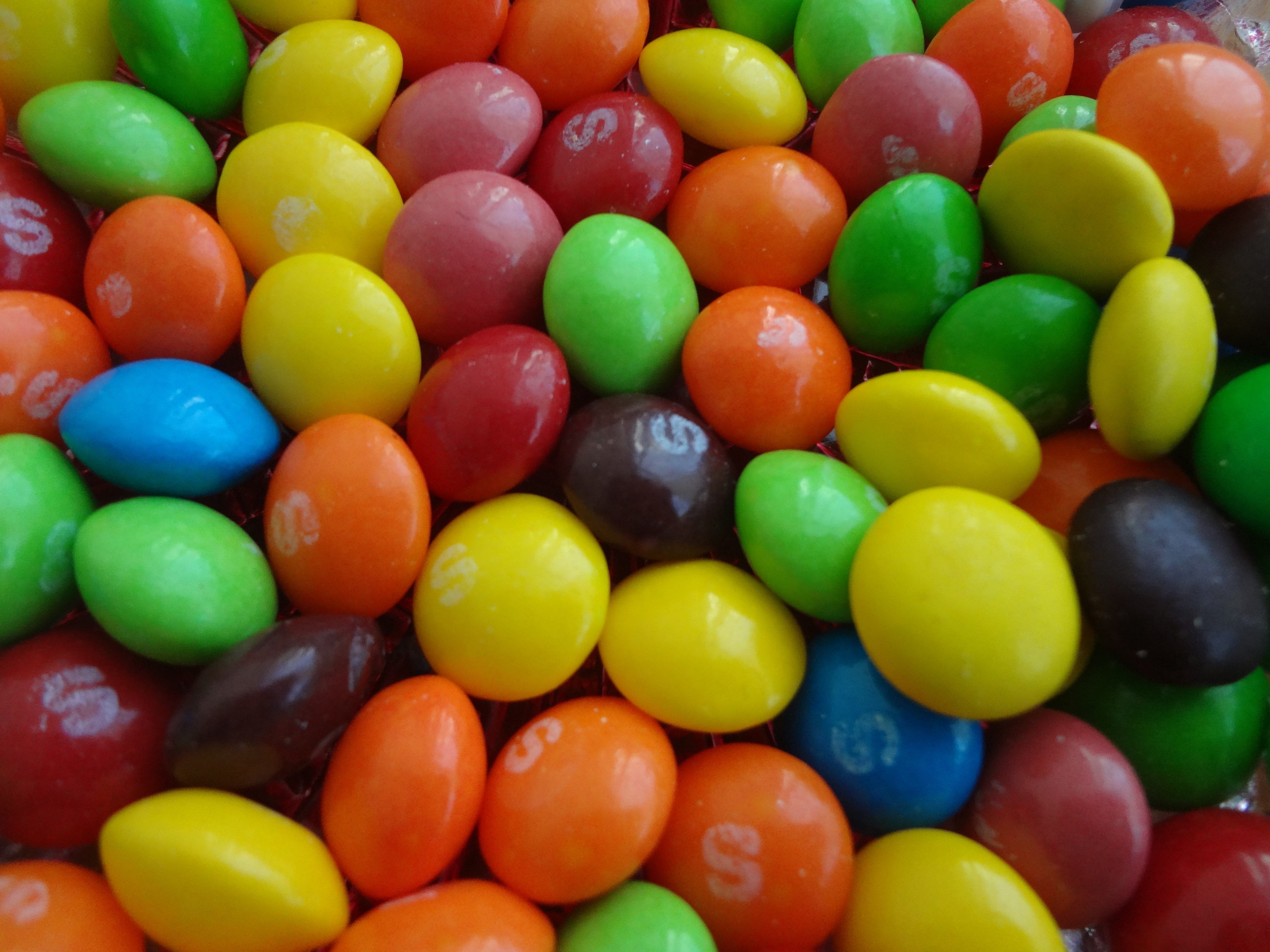 (Skittles) a handful Photography by David Adam Kess